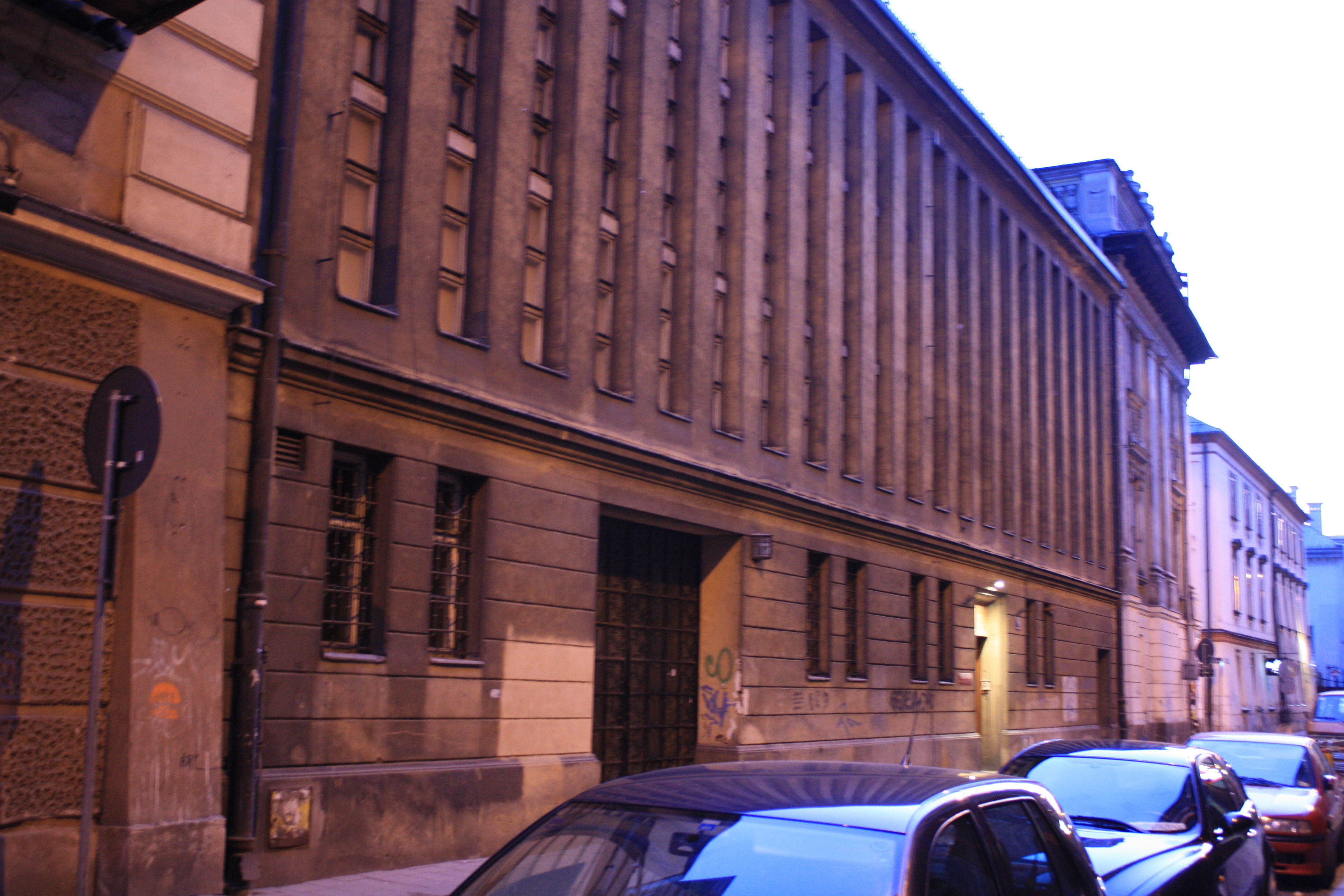 Czartoryski Library in Kraków